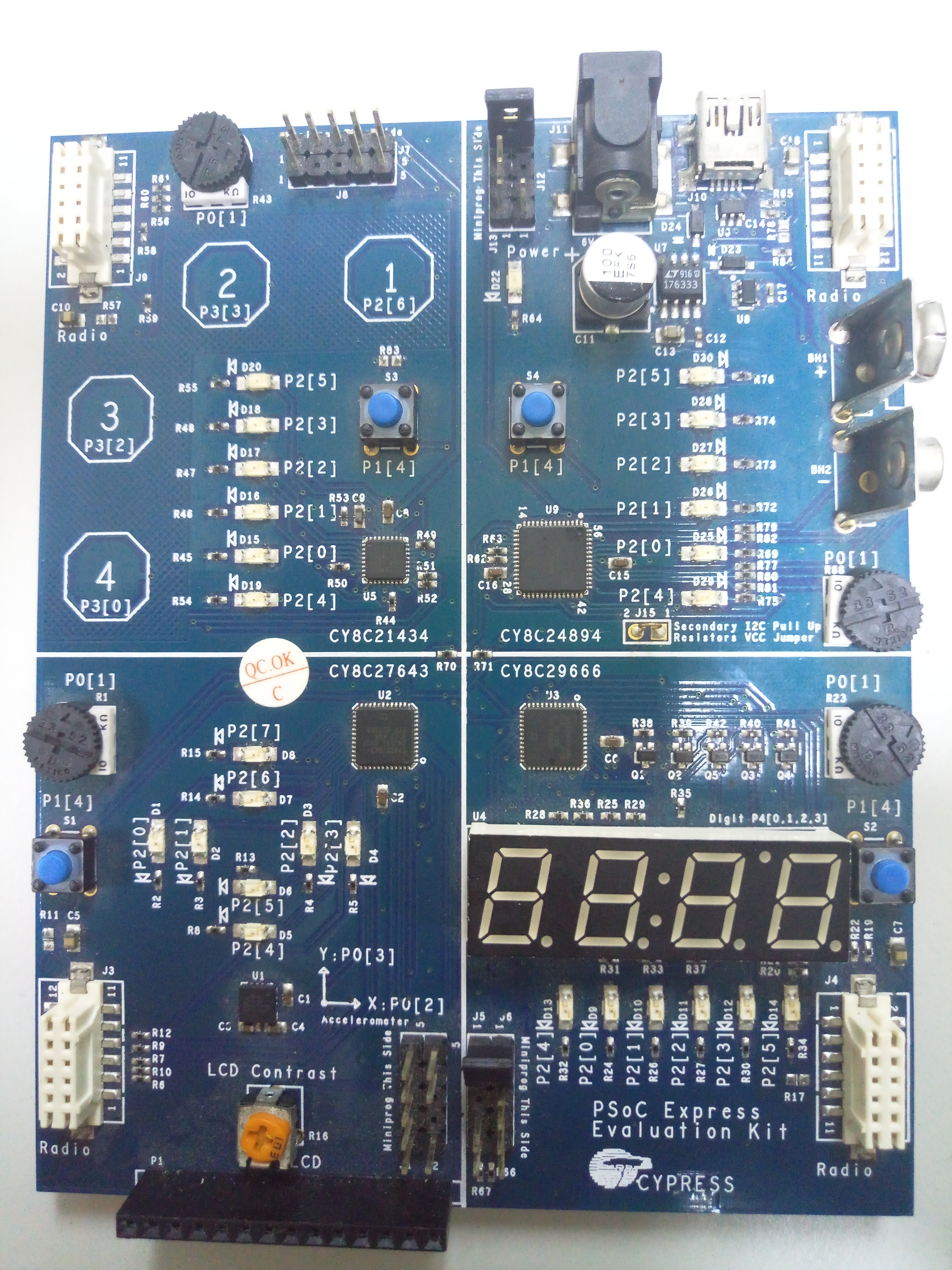 Cypress CY3209 PSoc